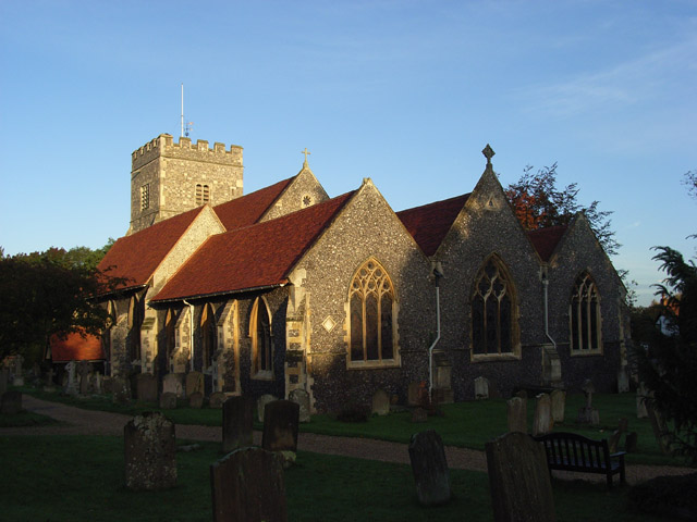 Church of England parish church of St Andrew, Sonning, Berkshire, just after sunrise.